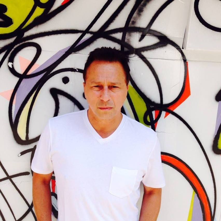 Film and television actor/director standing in front of colorful graffiti in New York City July 2014.